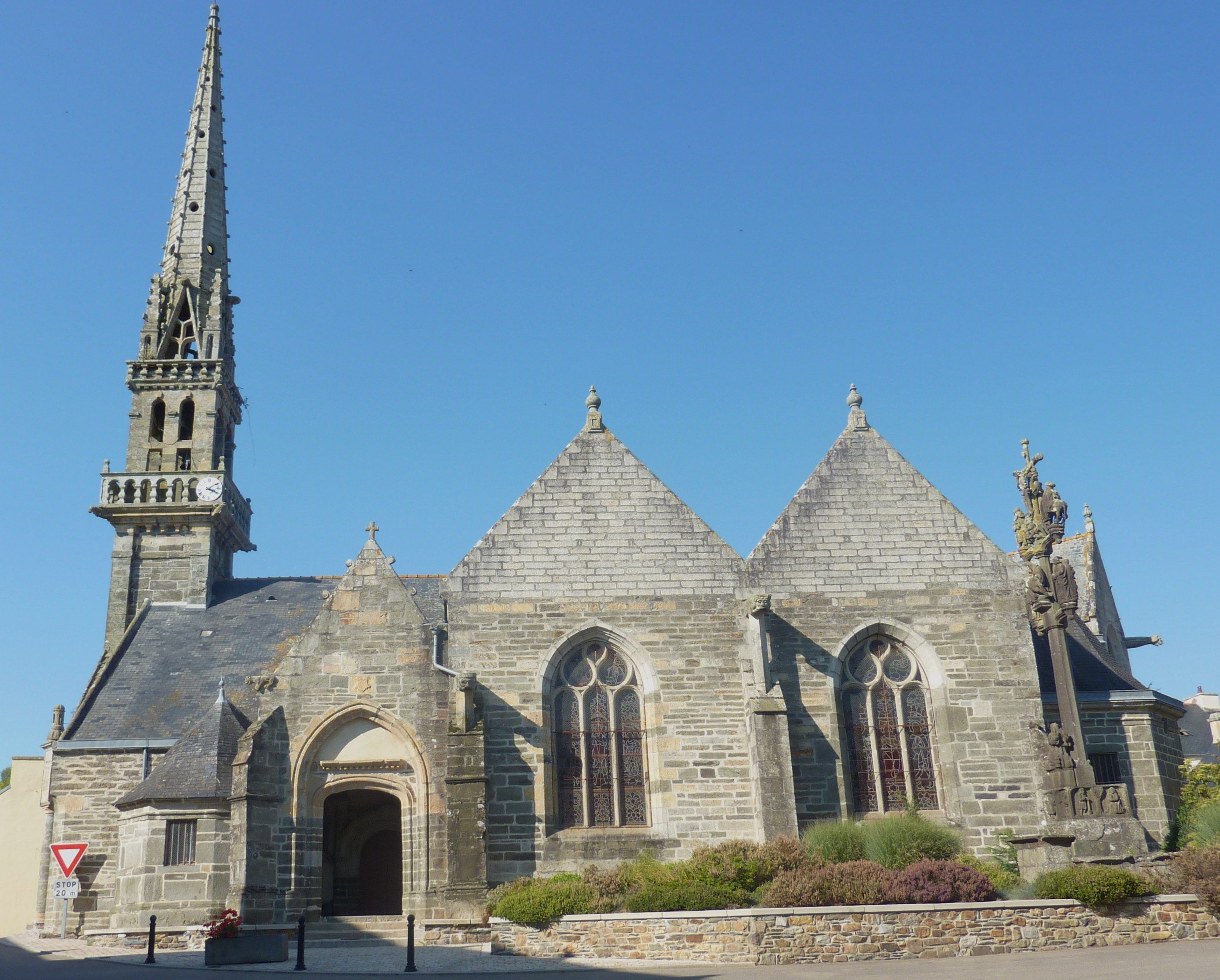 Parish church of Saint Petroc (French: Saint Pérec) in Lopérec, Brittany. View from the south.